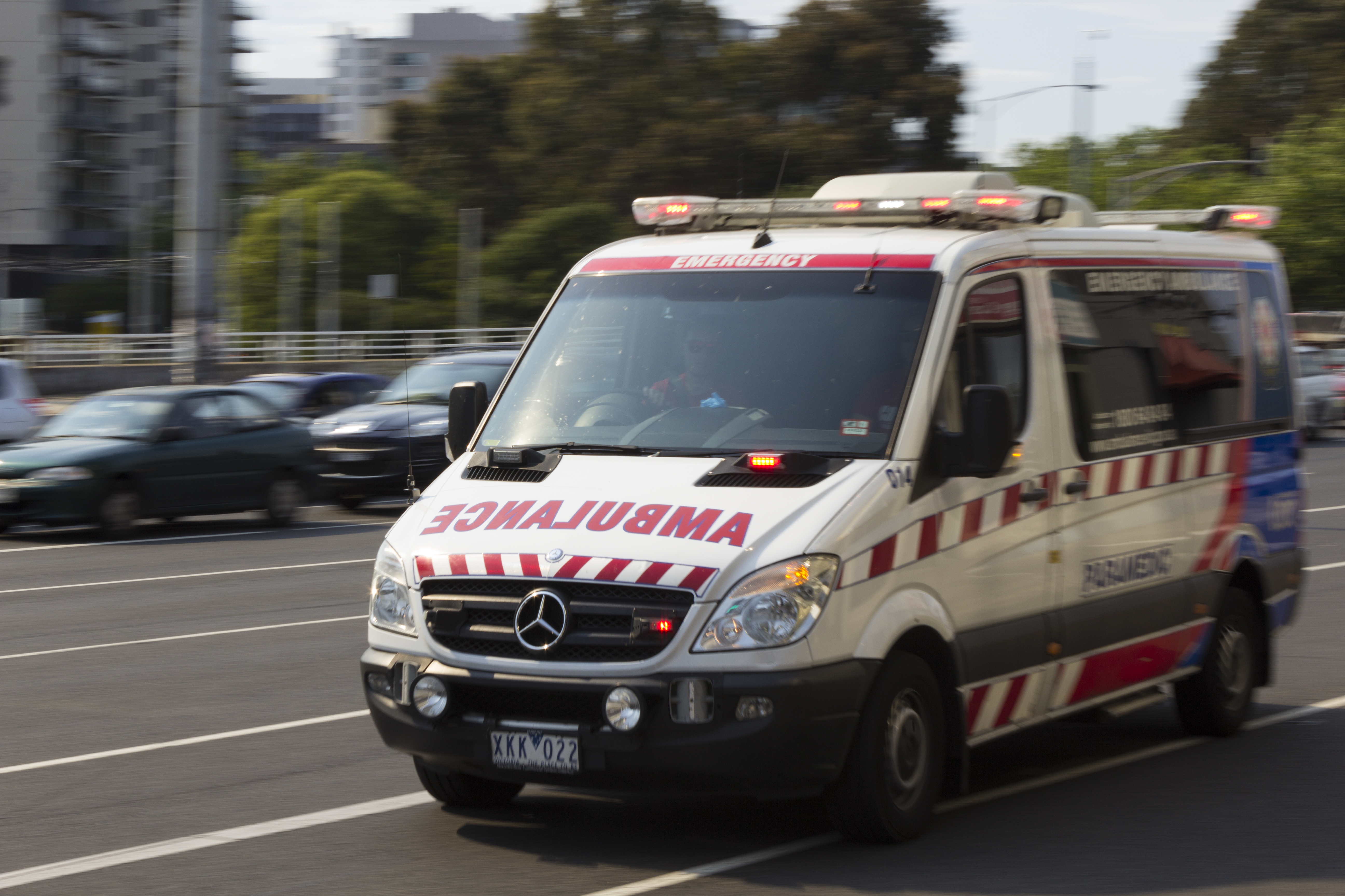 Ambulance Victoria Mercedes (014) paramedic at St Kilda Junction, 2013.